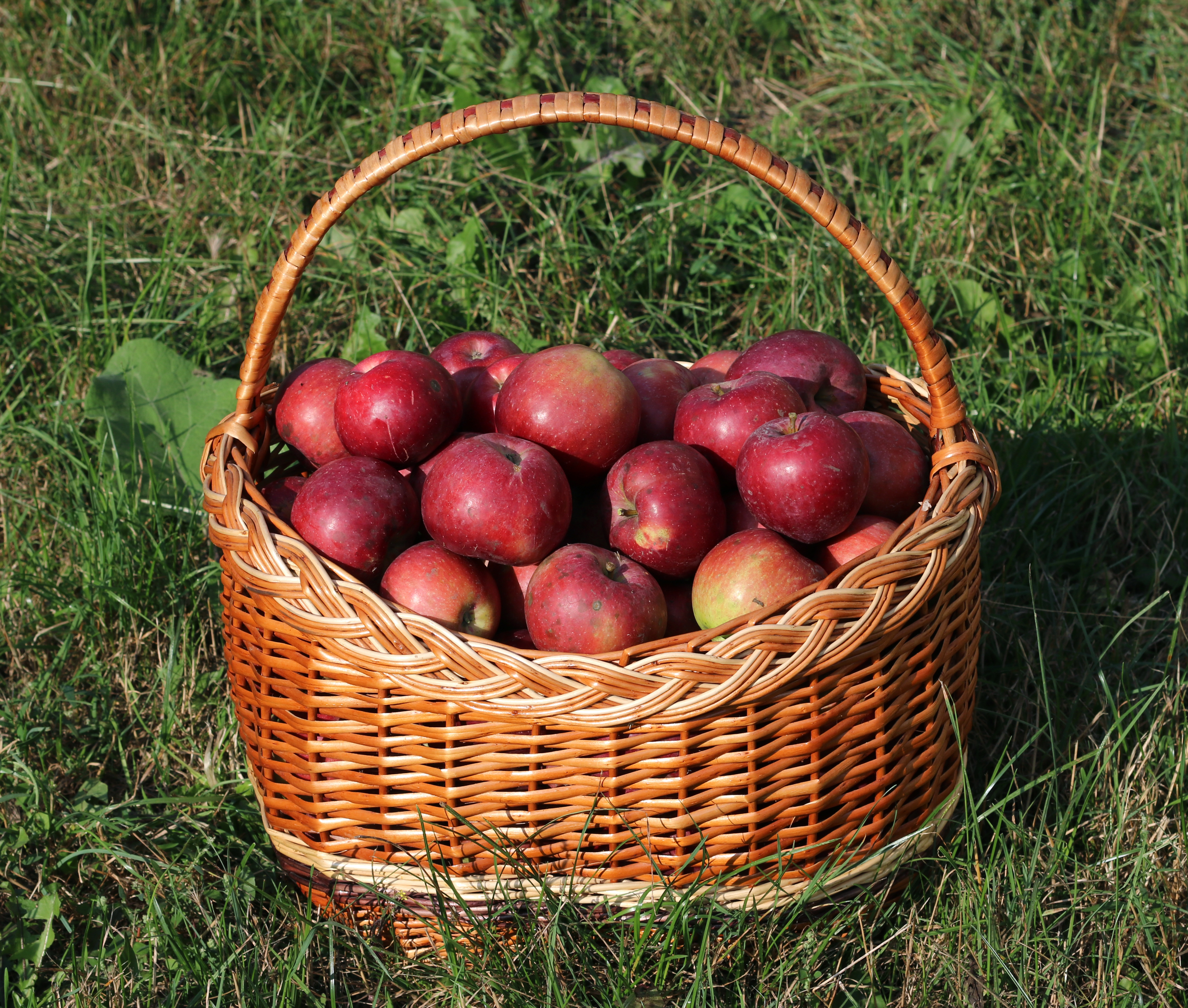 Apples 'Spartan' in a basket. Ukraine, Vinnytsia Oblast